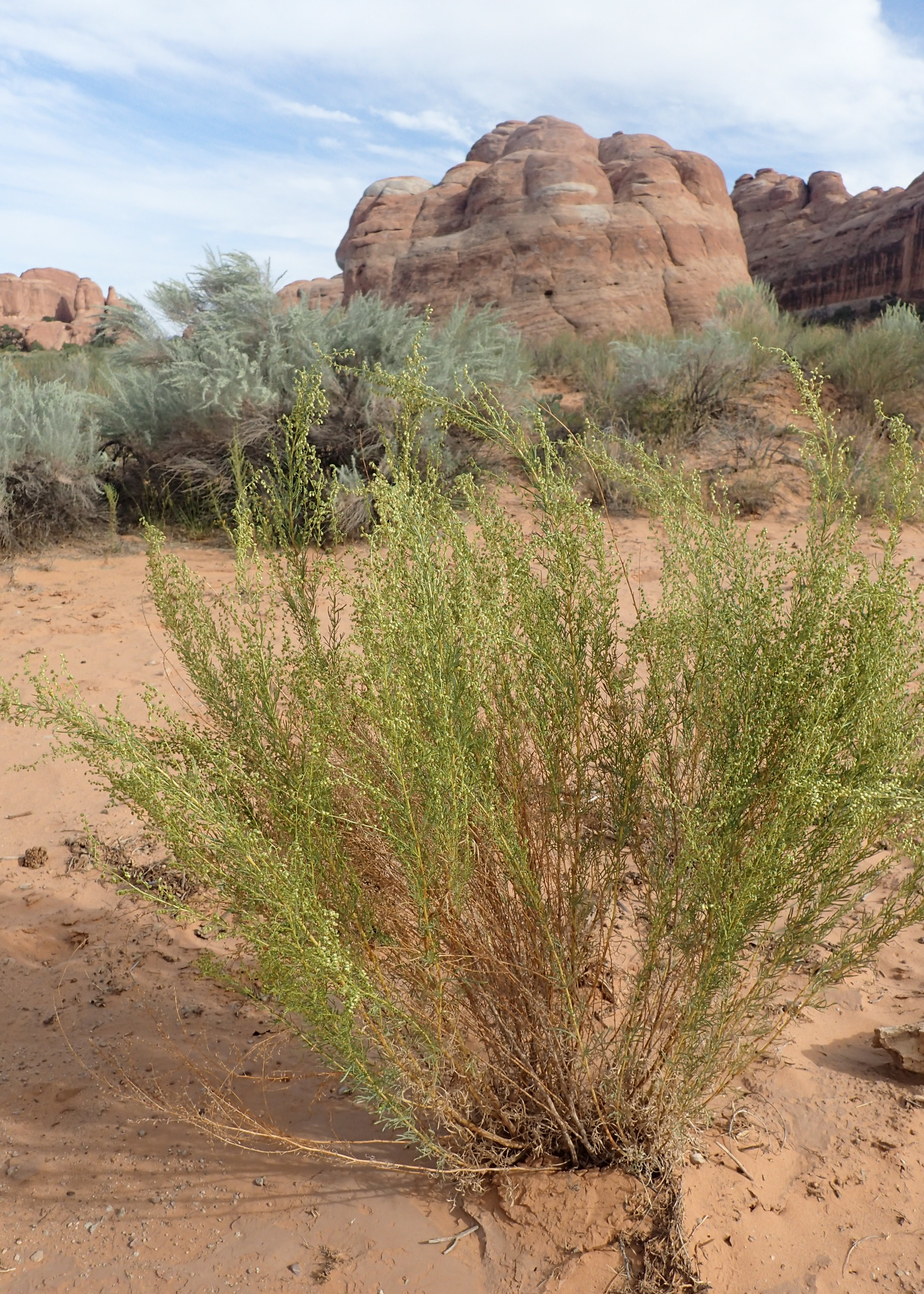 Artemisia campestris subsp. pacifica at Devils Garden Primitive Loop in Arches National Park, Utah, USA